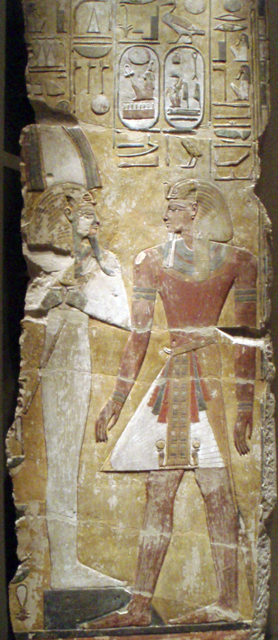 Pillar fragment depicting King Seti I before the God Osirus. Image taken at the Altes Museum, Berlin.